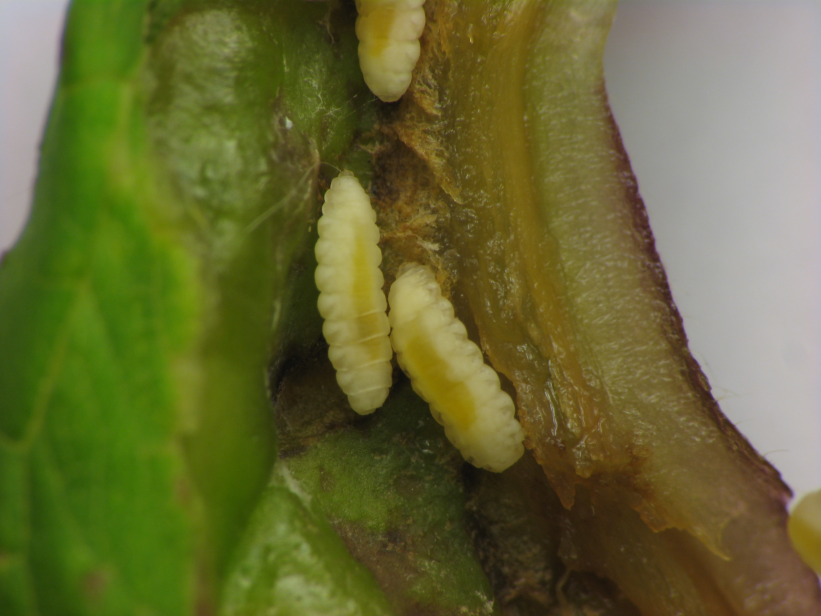 Dasineura tumidosae larvae, 2 mm, in gall on ash tree (Fraxinus). Horsham Trail, Montgomery County, Pennsylvania, USA.